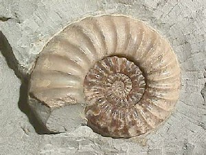 Photograph of the ammonite Asteroceras obtusum from the Jurassic Lower Lias Formation, Obtusum Zone. Locality - Lyme Regis, Dorset, England. Complete calcified specimen, measuring 11.5 cm (4.5") in diameter, in limestone matrix.